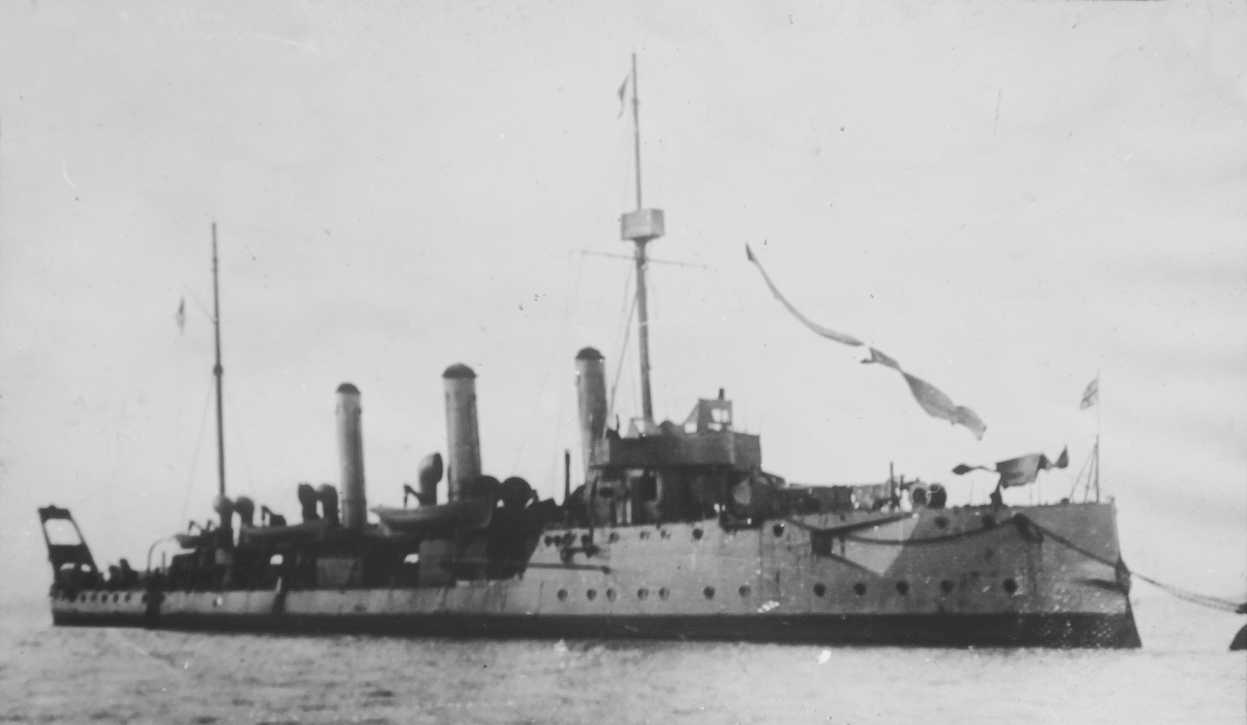 I've recently come into possession of two boxes of glass 'Magic Lantern' slides from the early 1900's. I'm slowly scanning and digitally restoring them. Any help in identifying the subjects or locations would be appreciated.